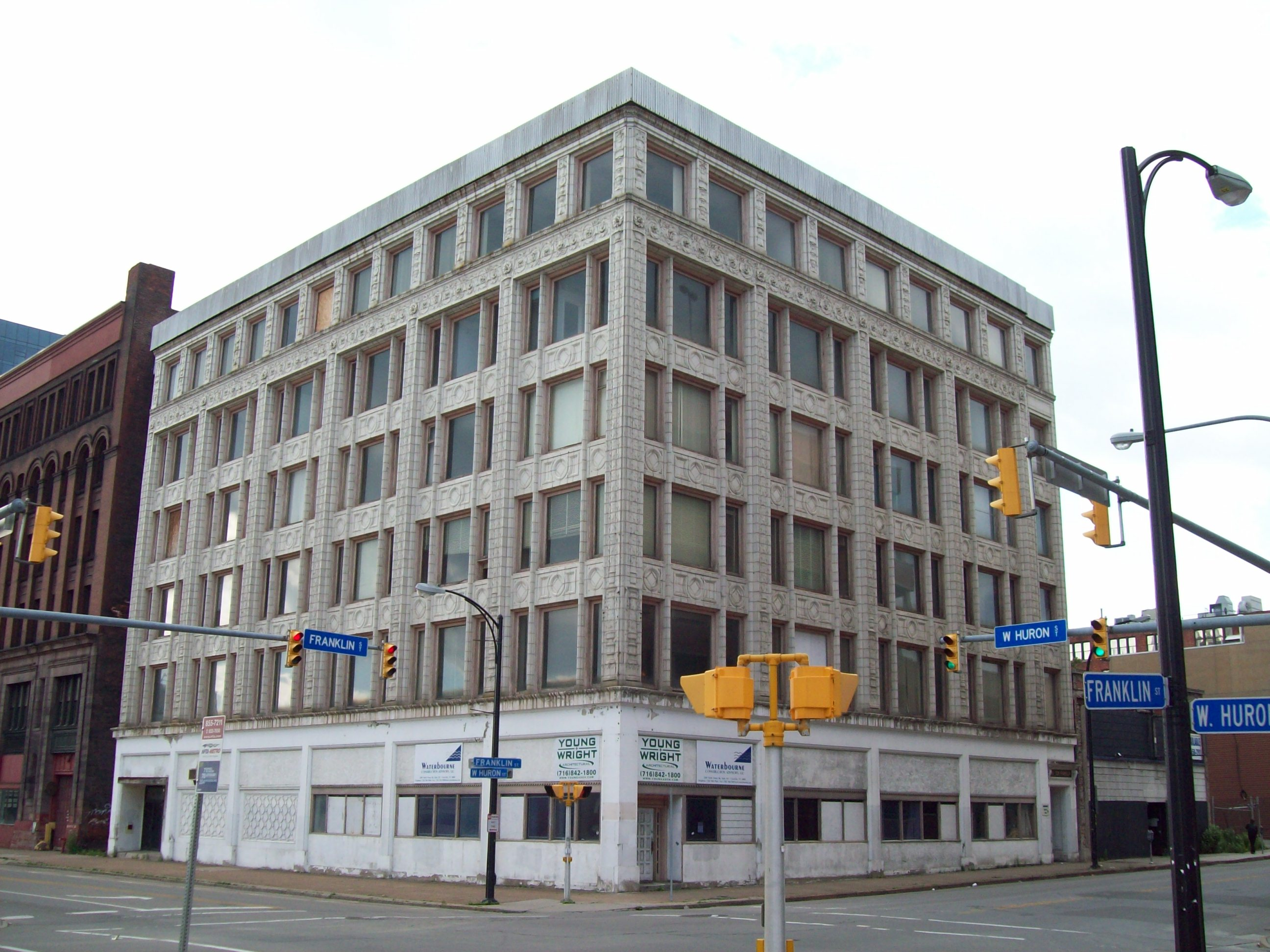 Harlow C. Curtiss Building June 2009